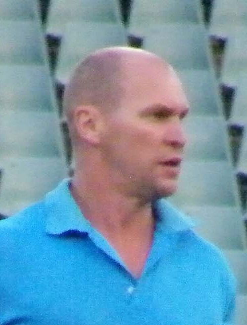 Allan Langer of the Brisbane Bronco's